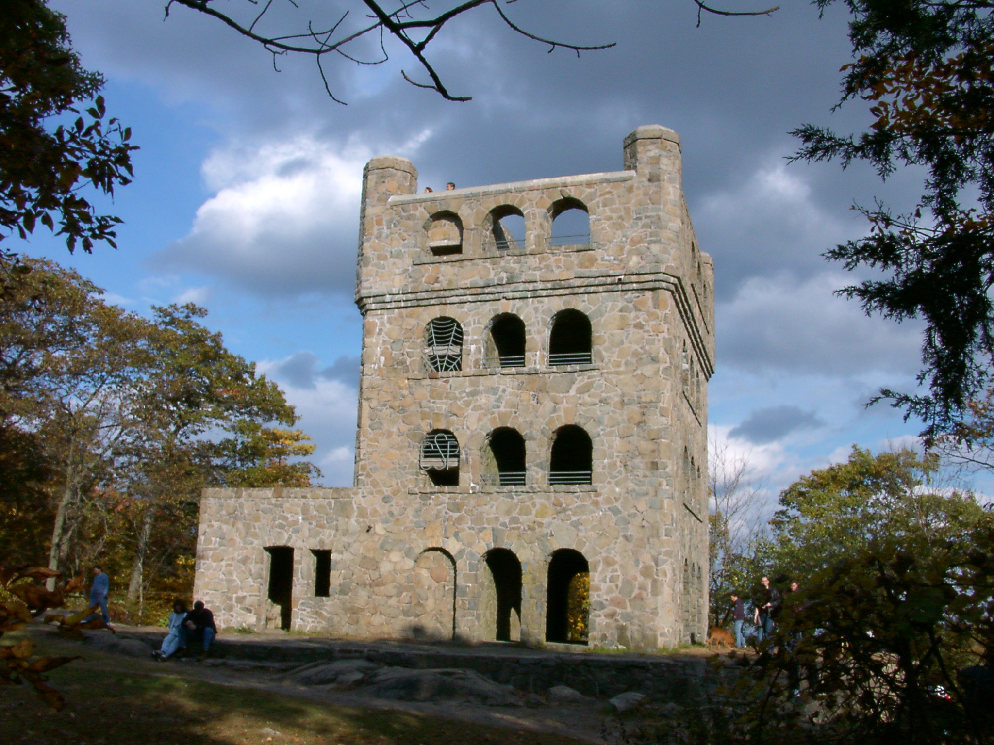 Picture of the tower I took in October 2004.